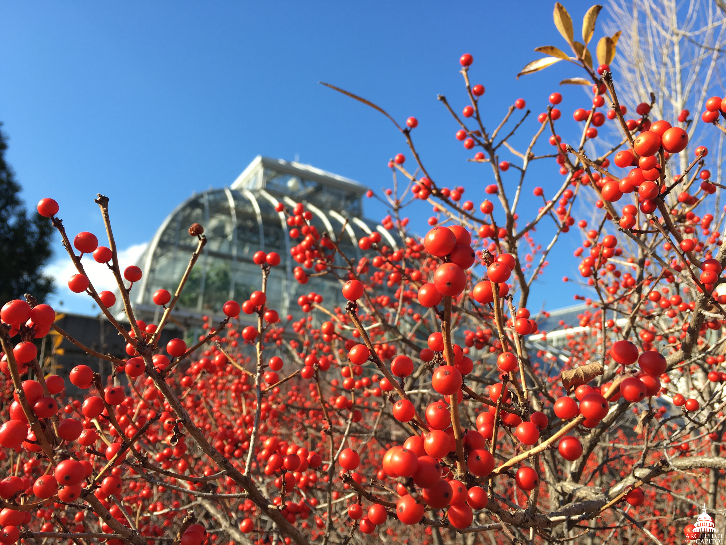 The Regional Garden in the U.S. Botanic Garden's National Garden features plants native to the Mid-Atlantic region of the U.S. In the winter, winterberries and other plants in this garden serve as important sources of food for birds and other wildlife.